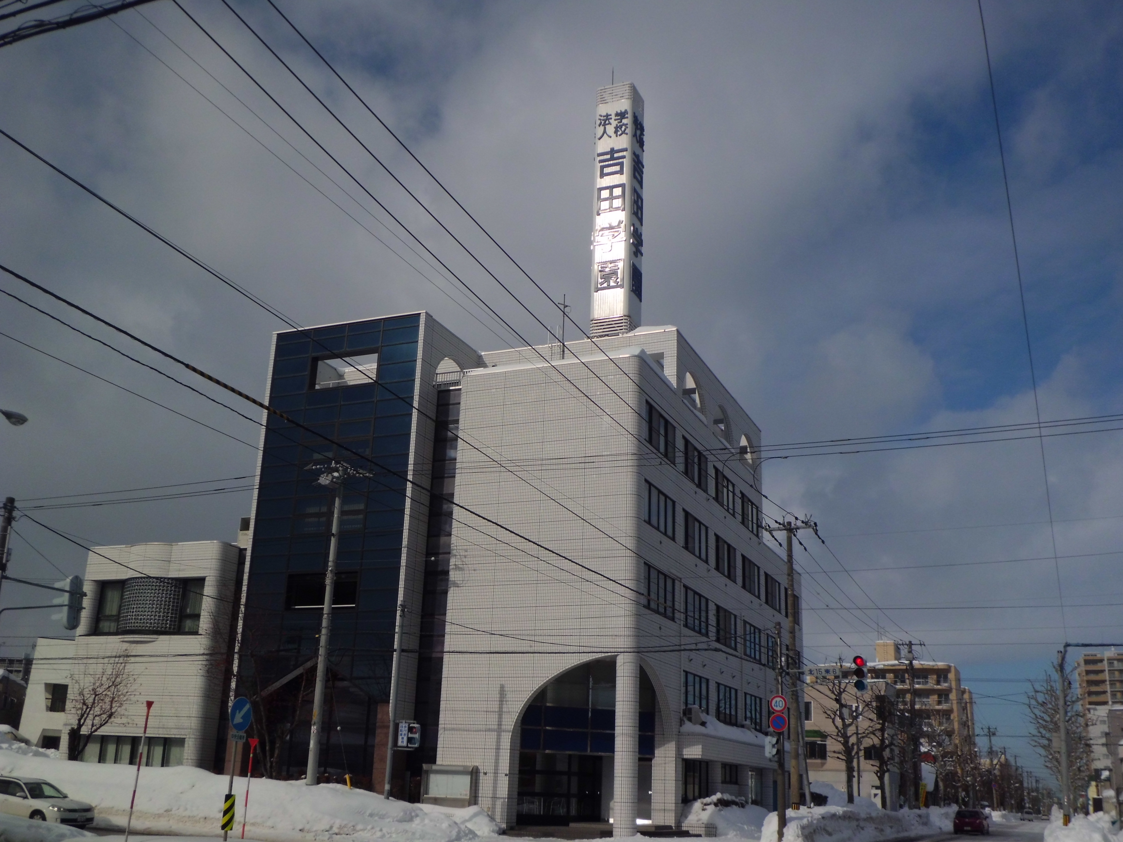 Yoshida Gakuen Computer and Business College